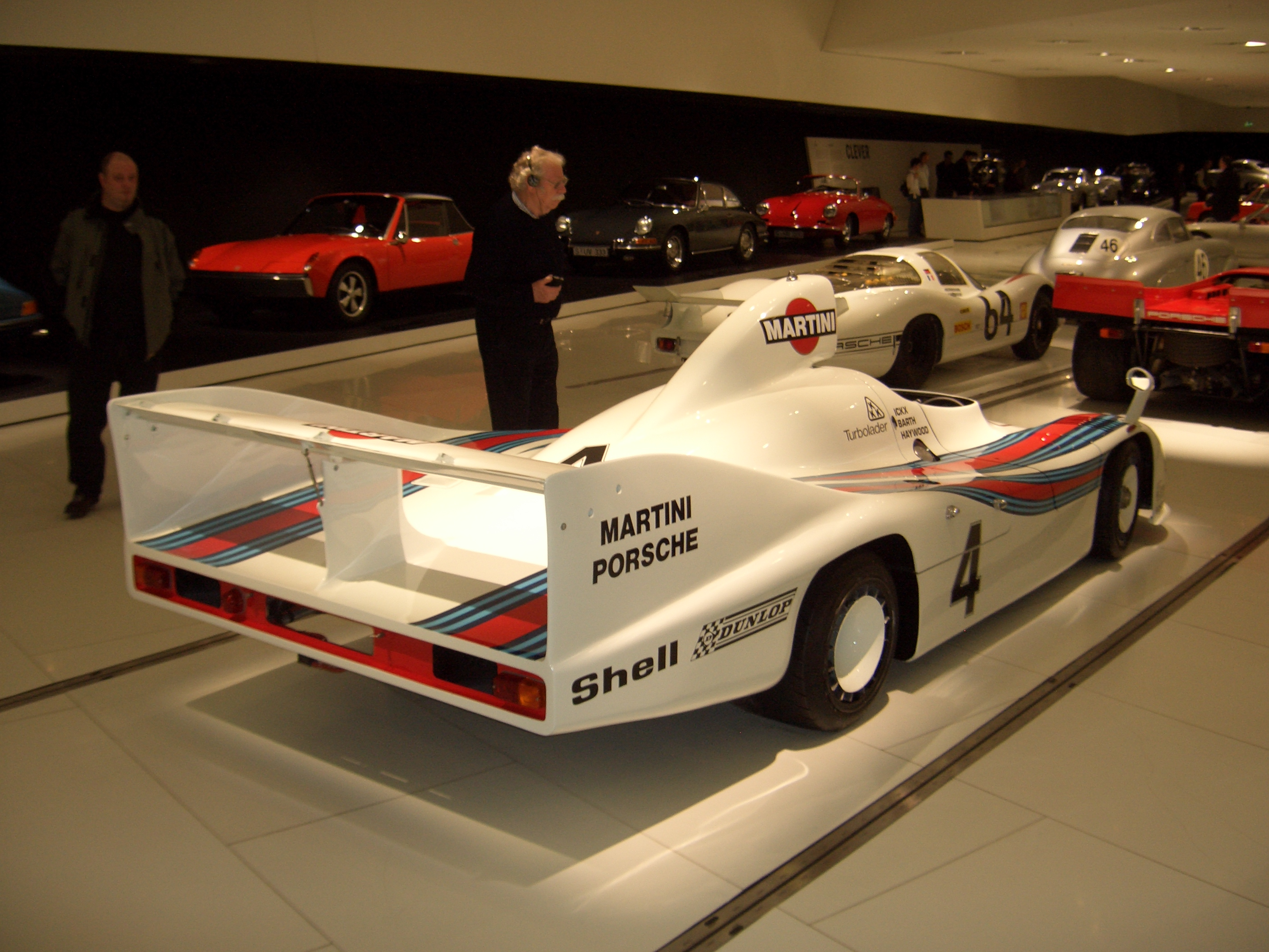 Porsche 936-77 Spyder 1976 backright - seen at PORSCHE MUSEUM in Stuttgart, Germany.